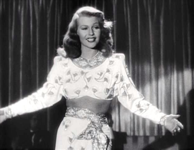 Rita Hayworth performing "Amado Mio" in the Gilda trailer